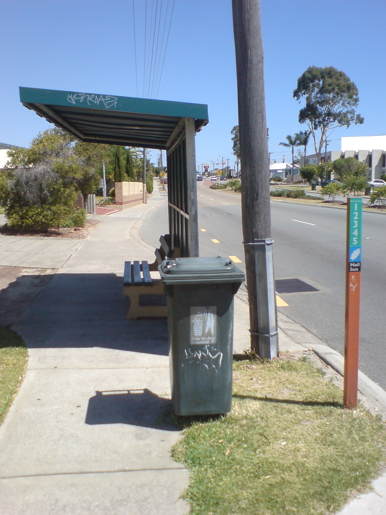 A typical Transperth bus stop, at Wanneroo Road before Morley Drive.